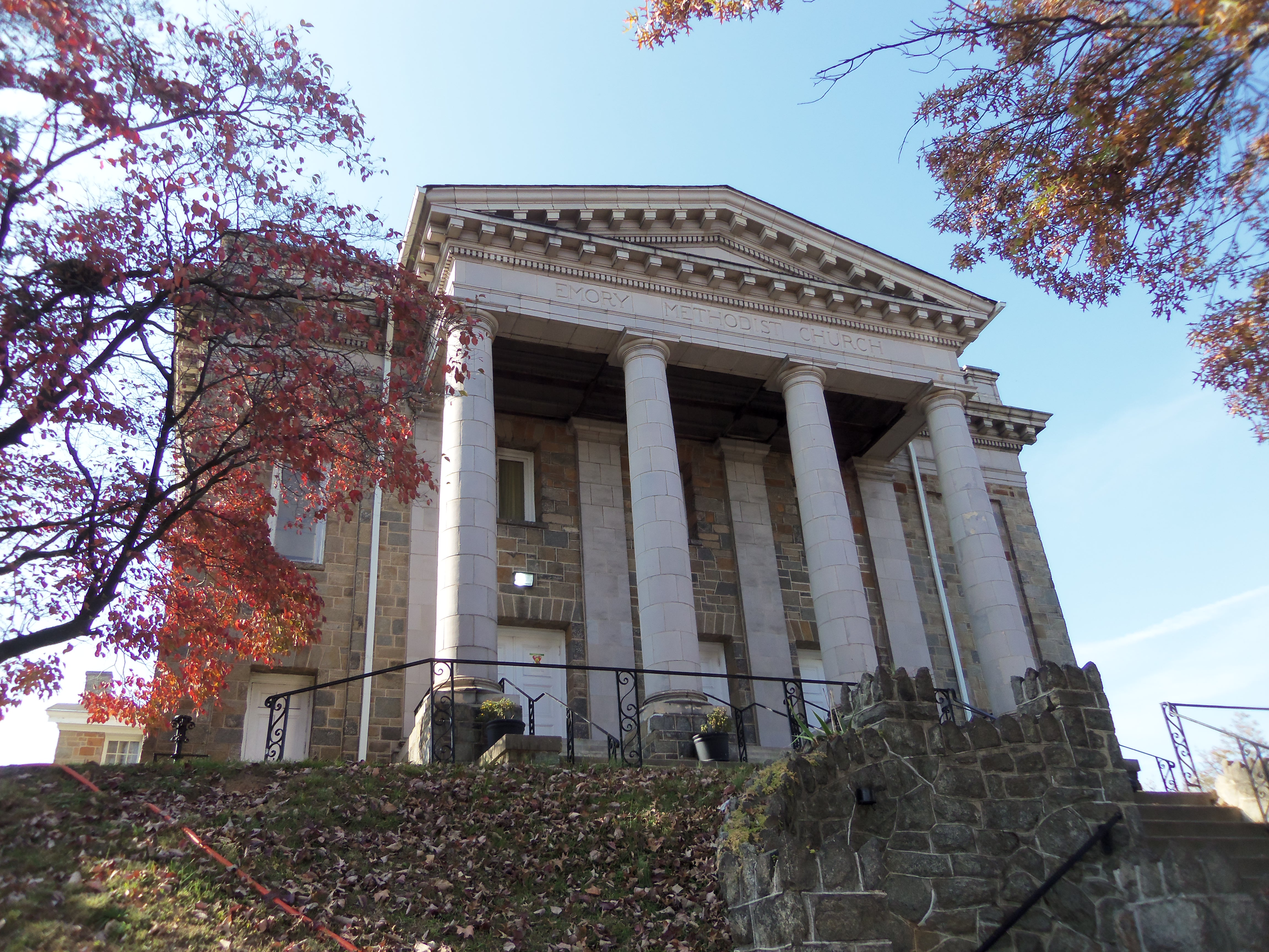 Emory United Methodist Church on Georgia Avenue, NW, in the Brightwood neighborhood of Washington, D.C.